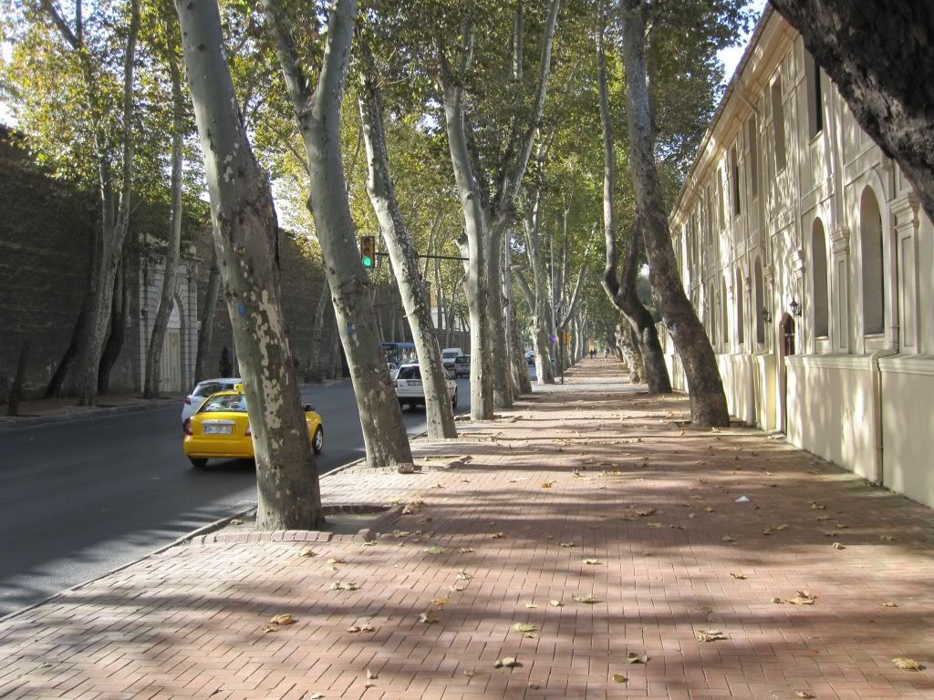 Spiritual Woody Road at Beşiktaş